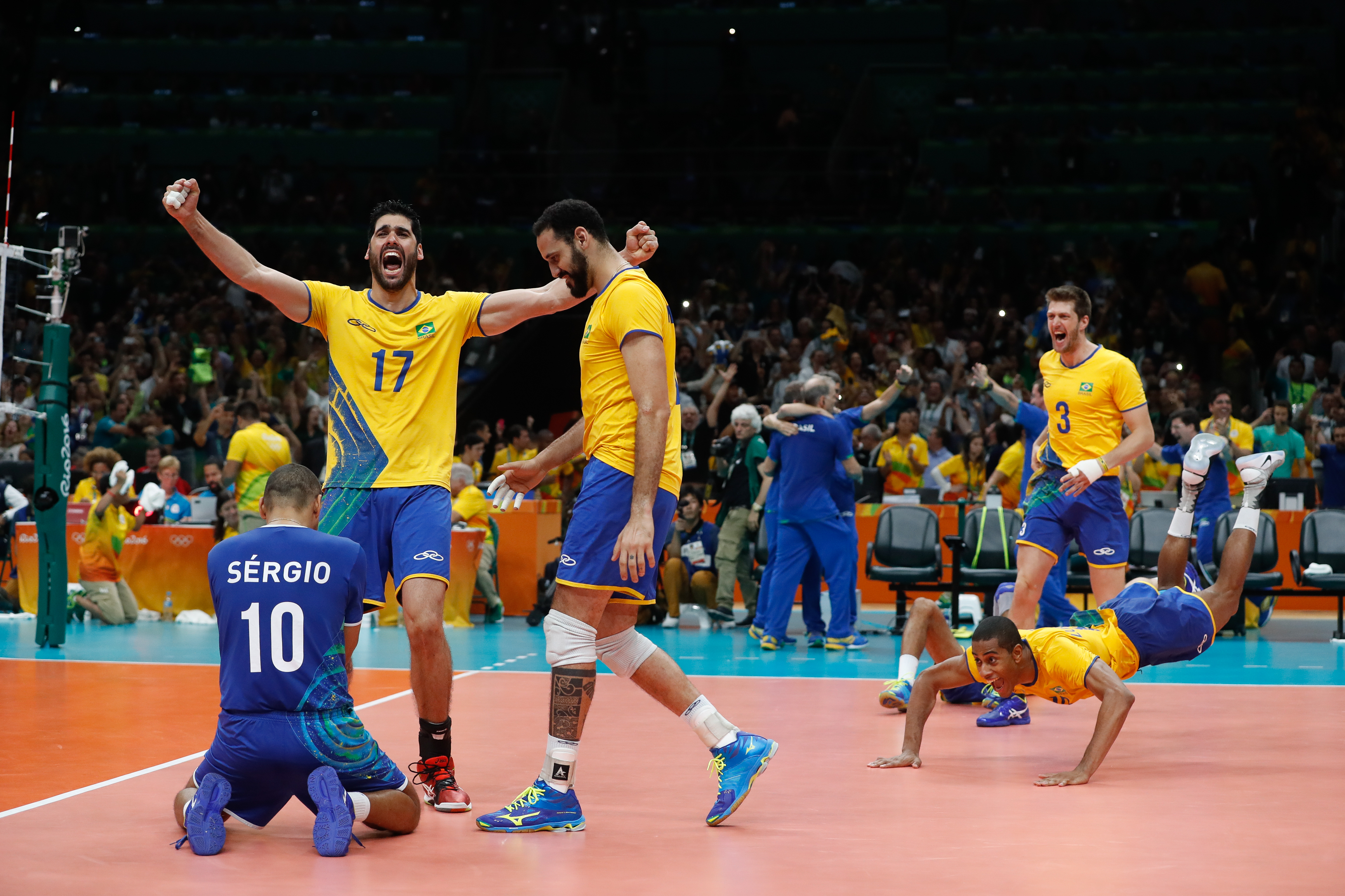 Rio de Janeiro - Seleção brasileira de vôlei disputa contra a Itália a final dos Jogos Olímpicos Rio 2016, no Maracanãzinho (Fernando Frazão/Agência Brasil)